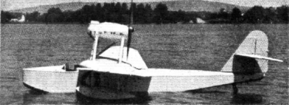 The single Dornier Do 12 floatplane.